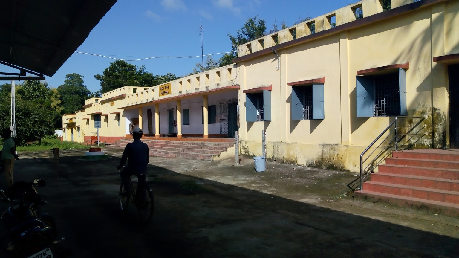 This is the Picture of Rambha railway station